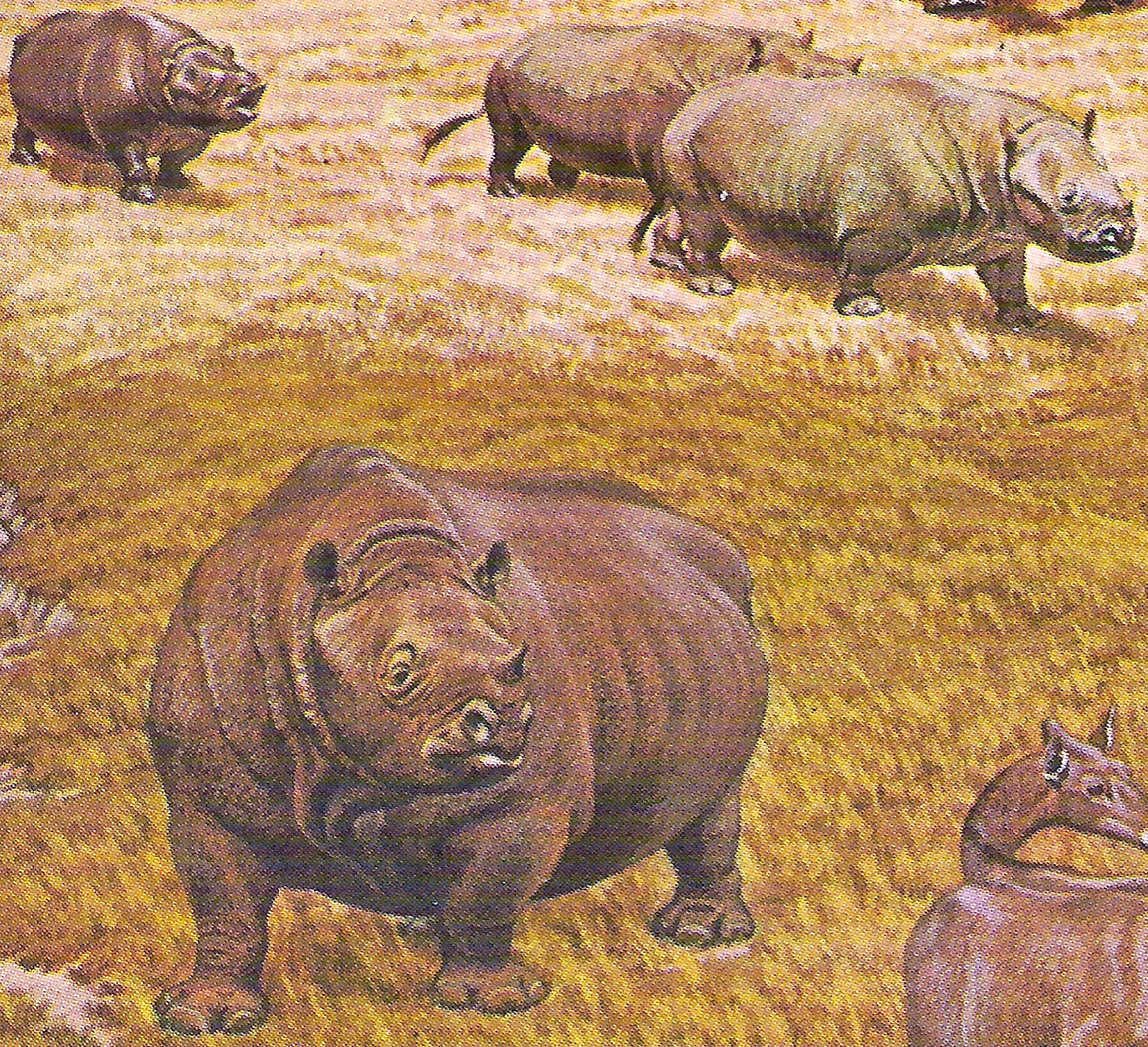 Restoration of a Teleoceras herd, on a mural made for the US government-owned Smithsonian Museum.